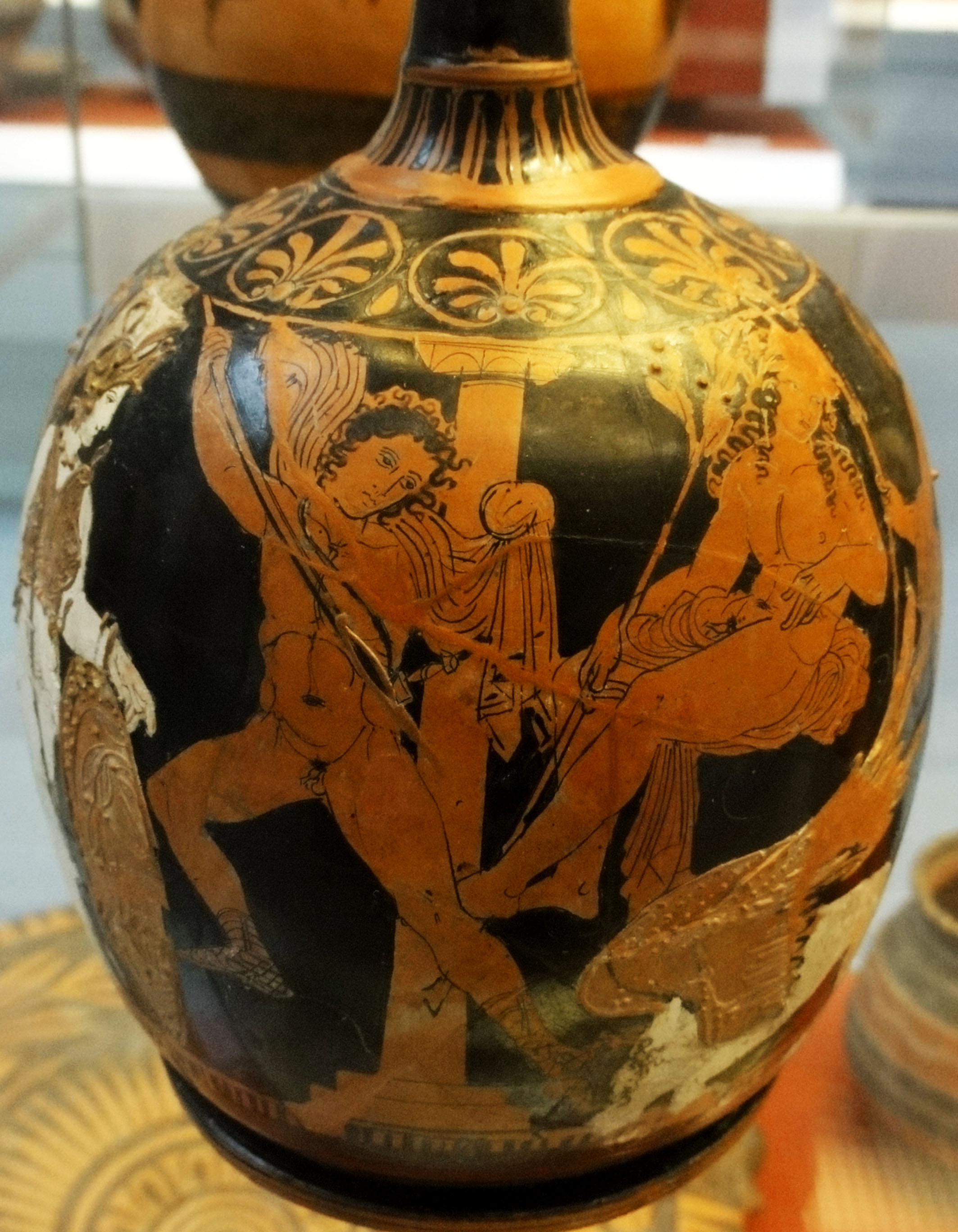 Oedipus slaying the sphinx. Attic red-figured lekythos in the manner of the Meidias Painter, 420-400 BC. British Museum, London, Cat. Vase E696.